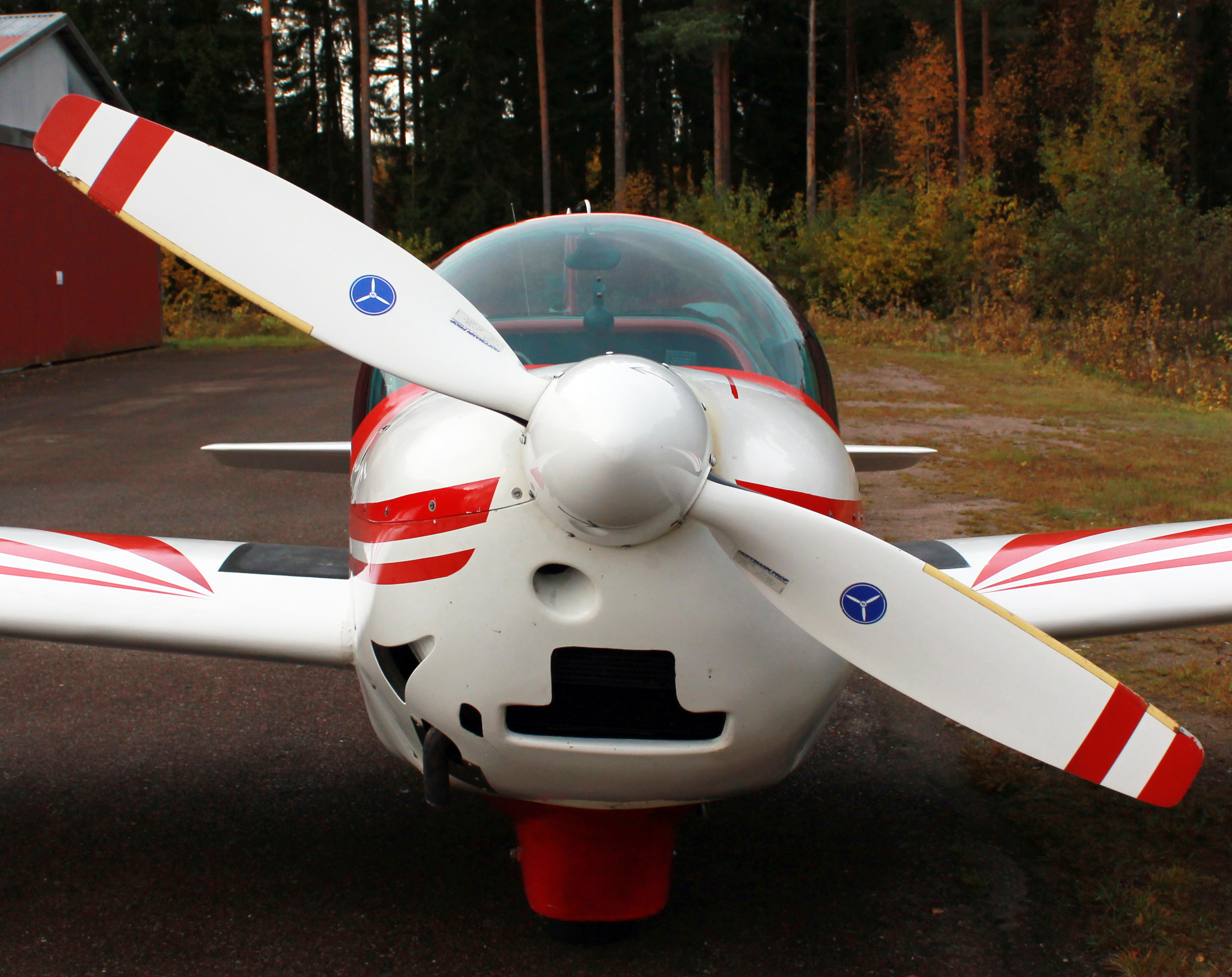 Front view of an M&D Flugzeugbau AVo 68 Samburo.